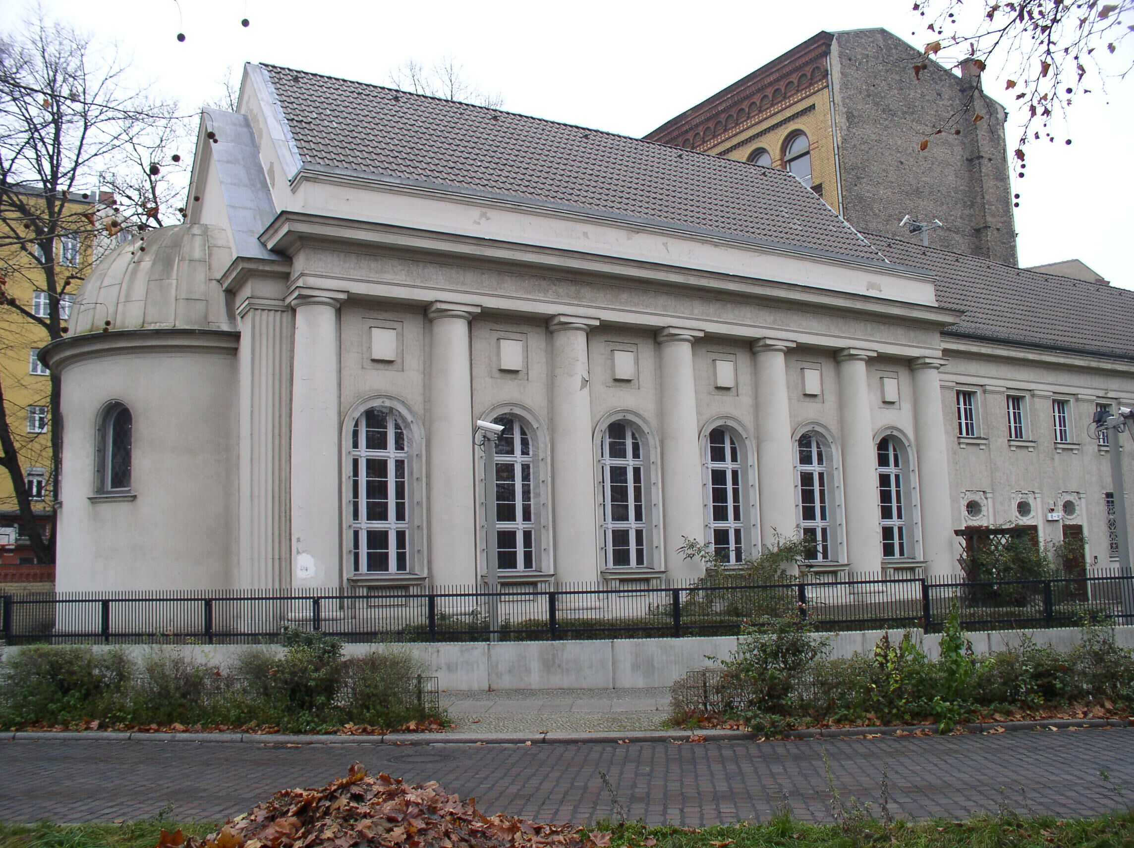 Fraenkelufer Synagogue in Berlin-Kreuzberg. Originally an Orthodox Synagogue, today the synagogue houses a Conservative congregation.